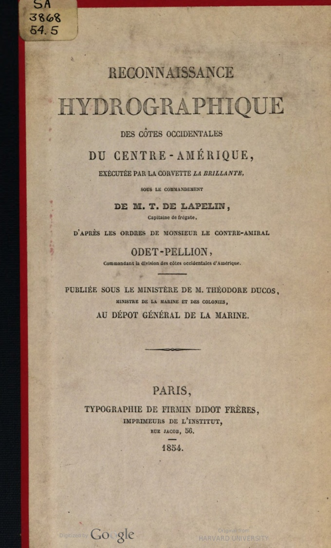 Cover page of Reconnaissance hydrographique des côtes occidentales du Centre Amérique